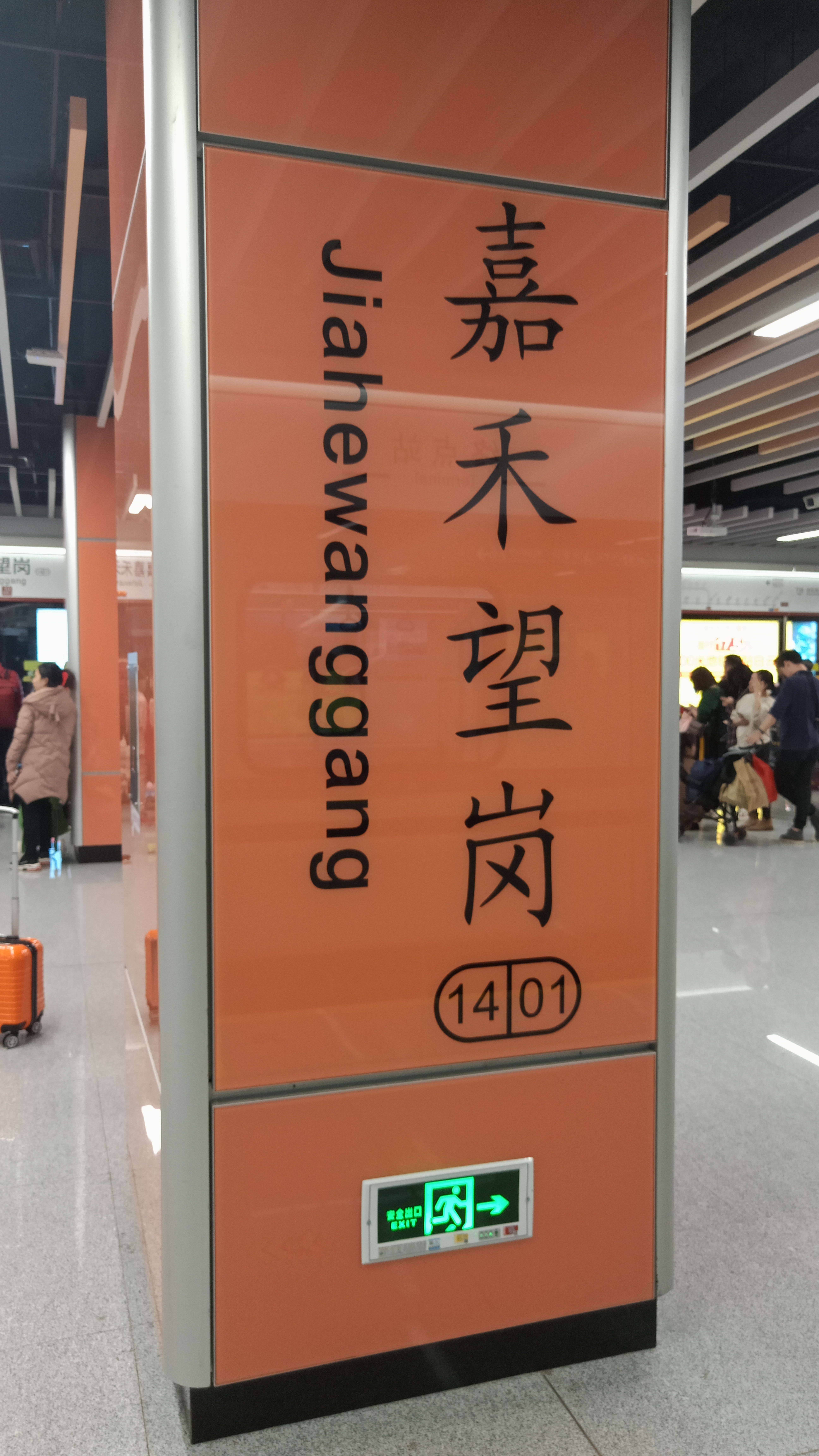 WORD on PILLAR for Jiahe Wanggang Station (Line 14), Guangzhou Metro.